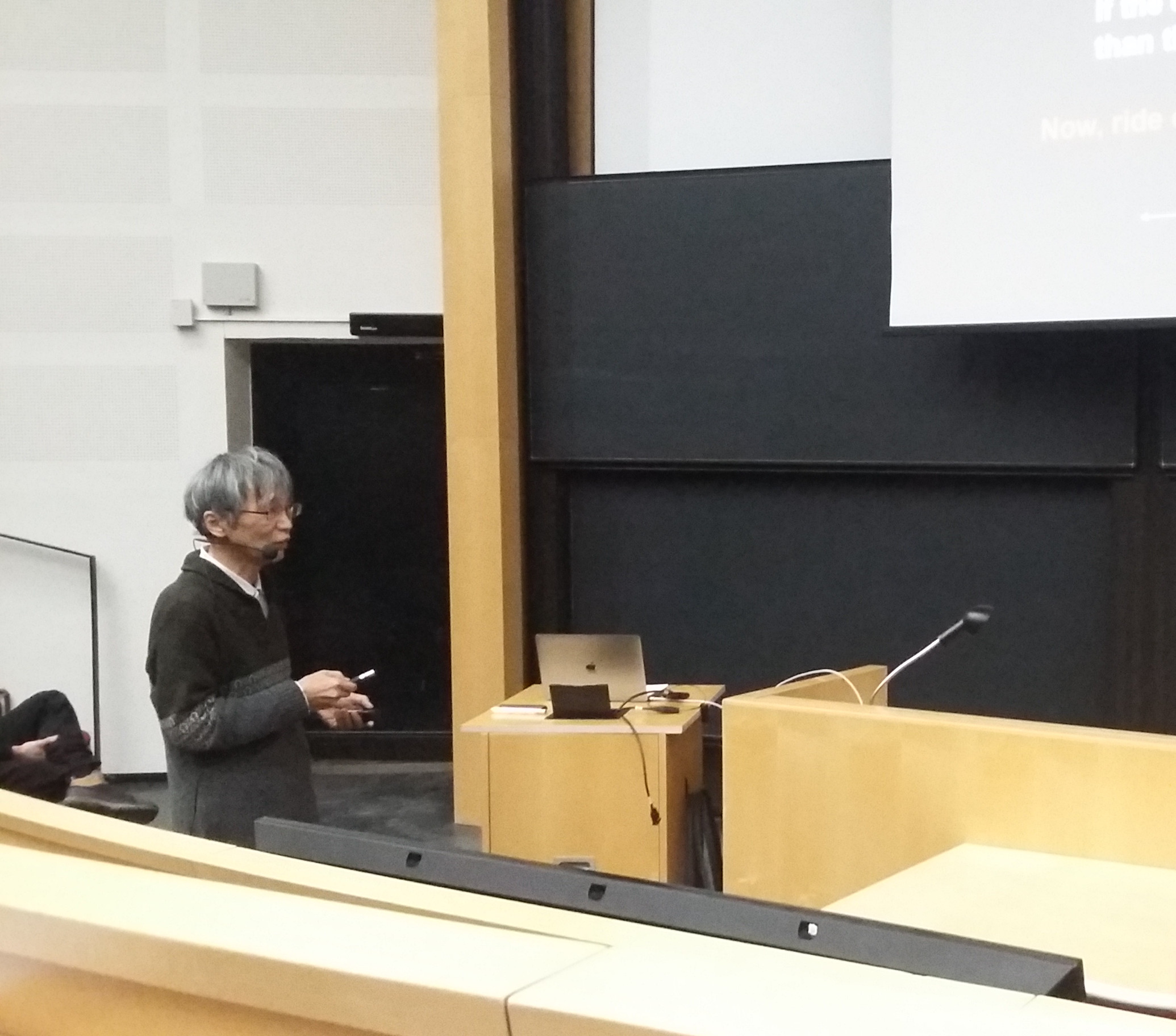 Physicist Tsutomu Yanagida at Nordita Advanced Winter School on Theoretical Cosmology 2020